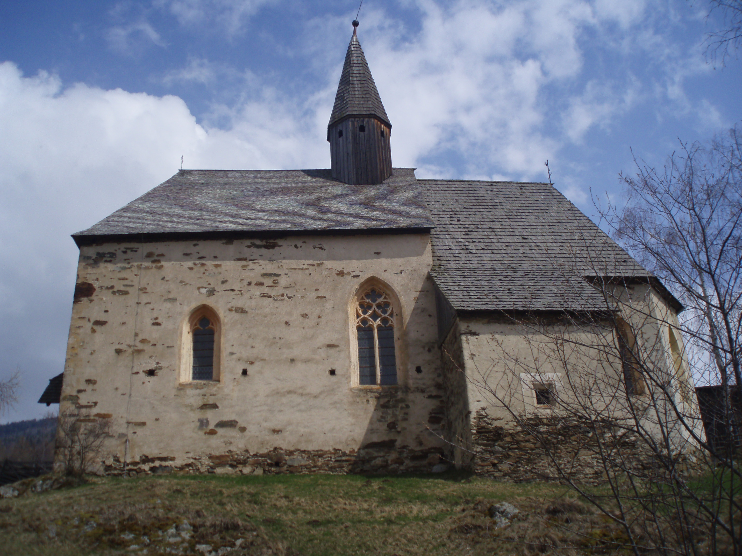 Kath. Filialkirche hl. Ulrich am Hollerberg